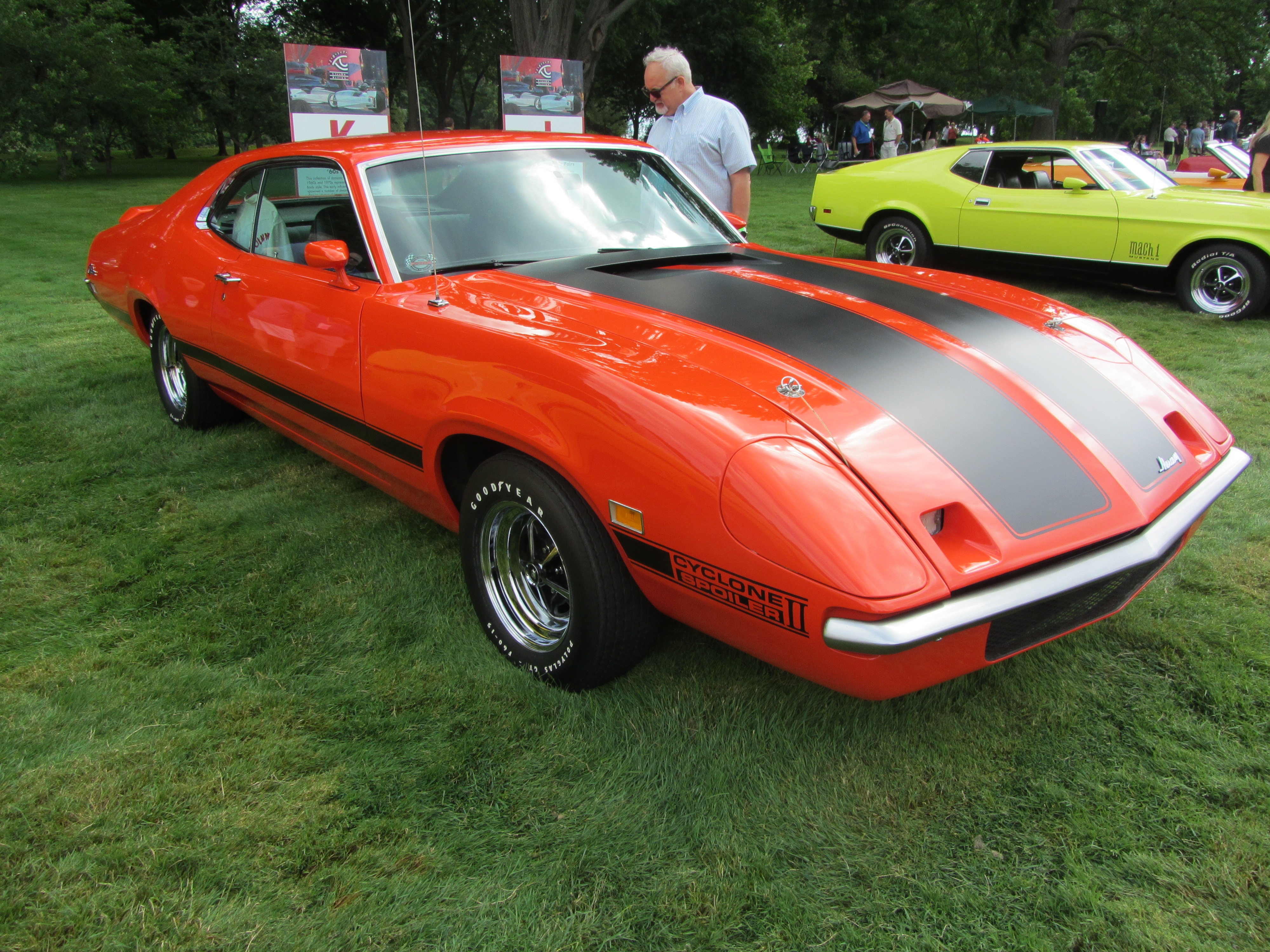 Mercury Cyclone Spoiler II prototype, originally intended as a homologation special for the 1970 NASCAR season.1970 Mercury Cyclone Spoiler II at